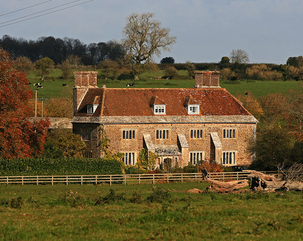 Tomson Farmhouse - Winterborne Tomson A picturesque detached early C17 farmhouse, with C19 rear additions. When the house was first built, Winterborne Tomson was a much larger hamlet than what survives here today. It was then the manor house at the centre of what was quite a substantial community. Grade II* Listed.